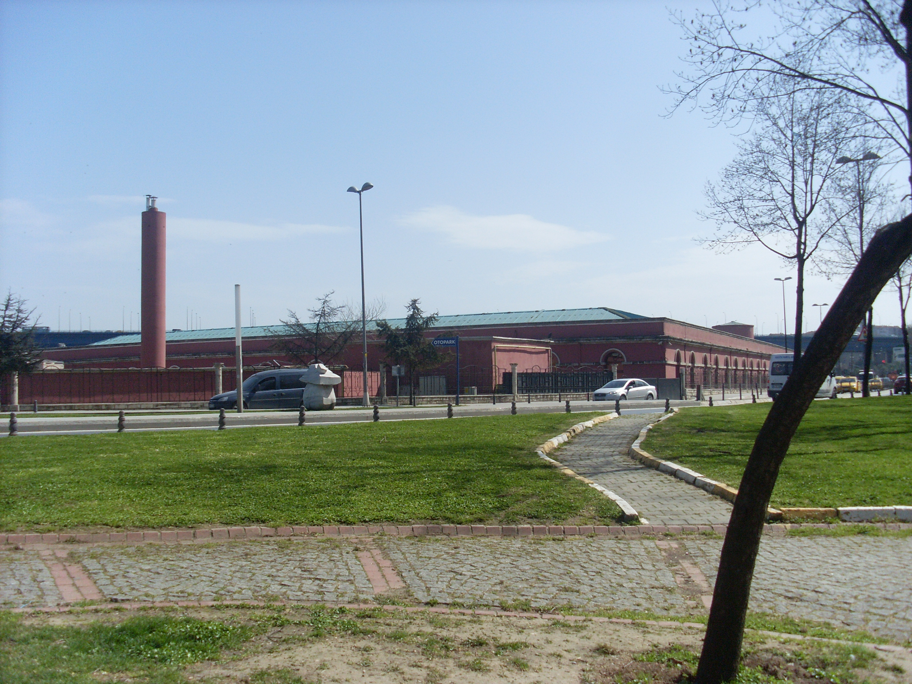 İstanbul - Feshane - Mart 2013 r2